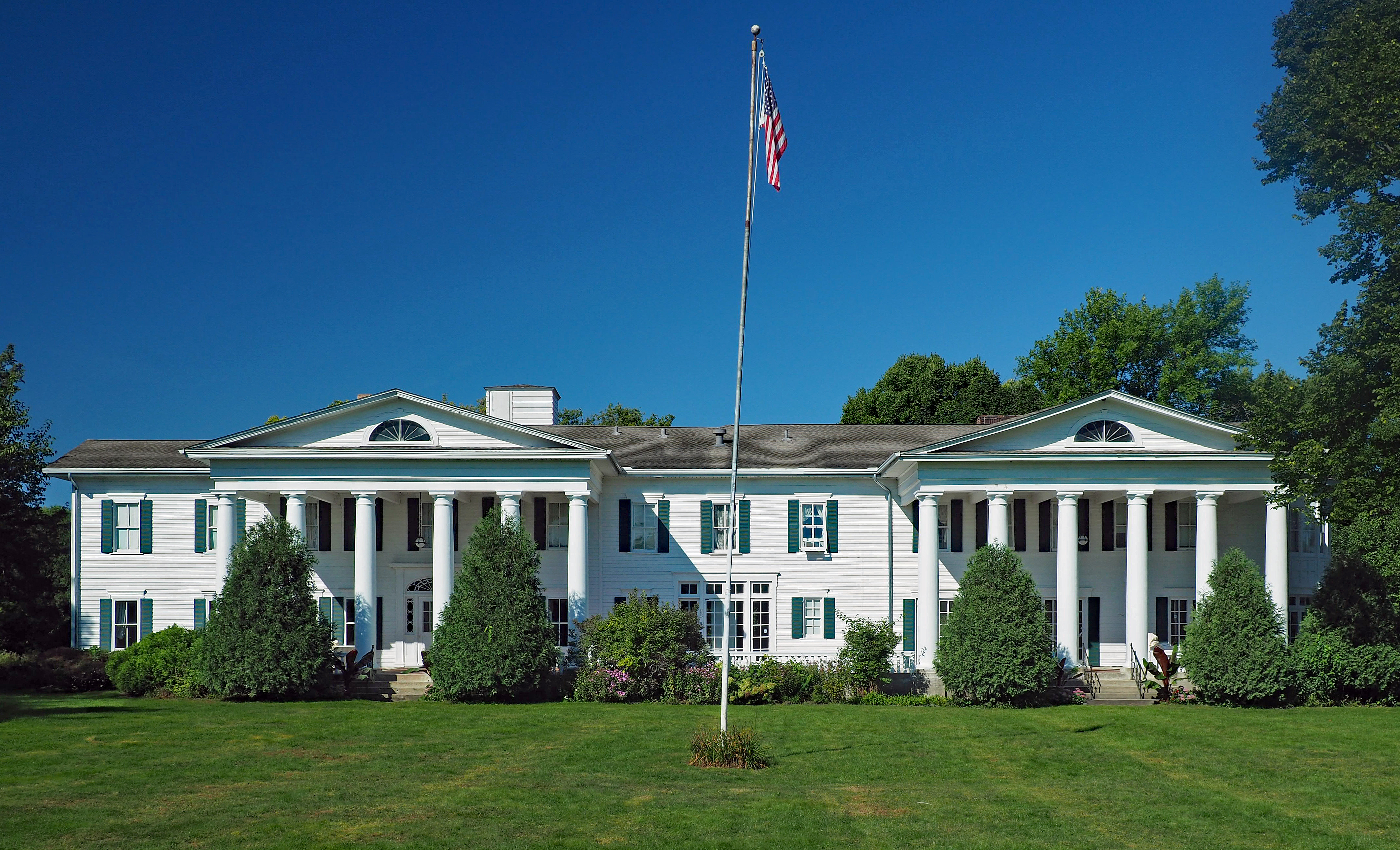 Cedarhurst (the Cordenio Severance House), 6940 Keats Ave S, Cottage Grove, Minnesota, USA. Viewed from the east. Taken on private property with permission.